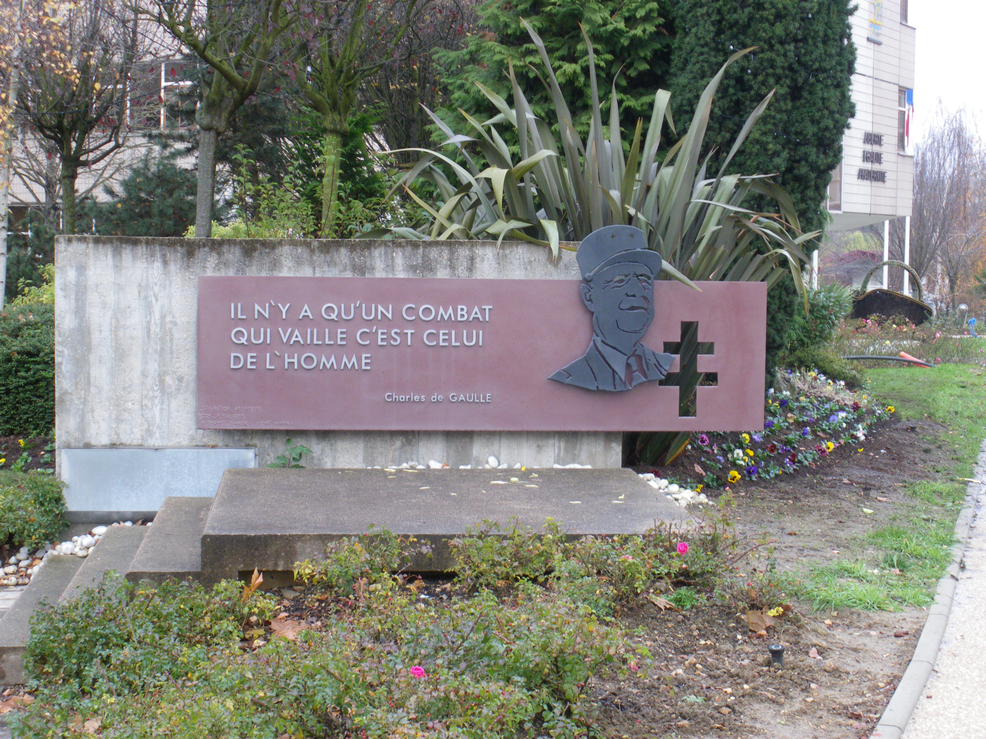 Charles de Gaulle memorial, Massy, Essonne, France